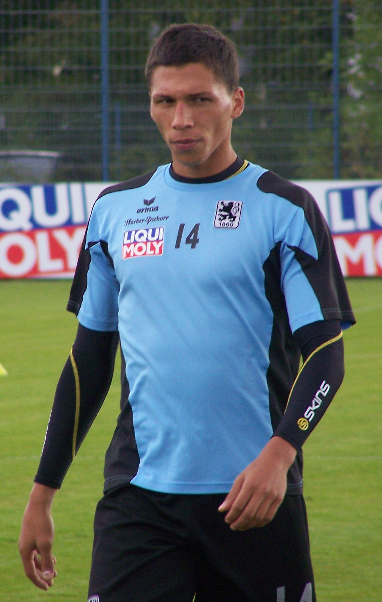 Jose Holebas, 1860 munich, training